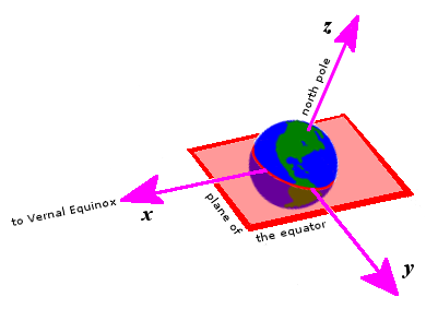 Diagram of geocentric equatorial rectangular coordinate axes, shown superimposed on a drawing of the Earth.